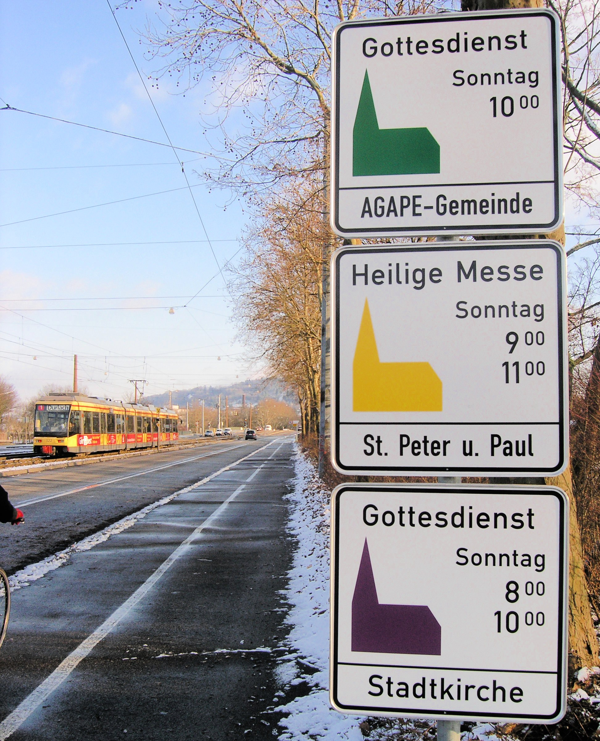 Road signs listing church services in Karlsruhe-Durlach: pentecostal, roman-catholic, evangelic.